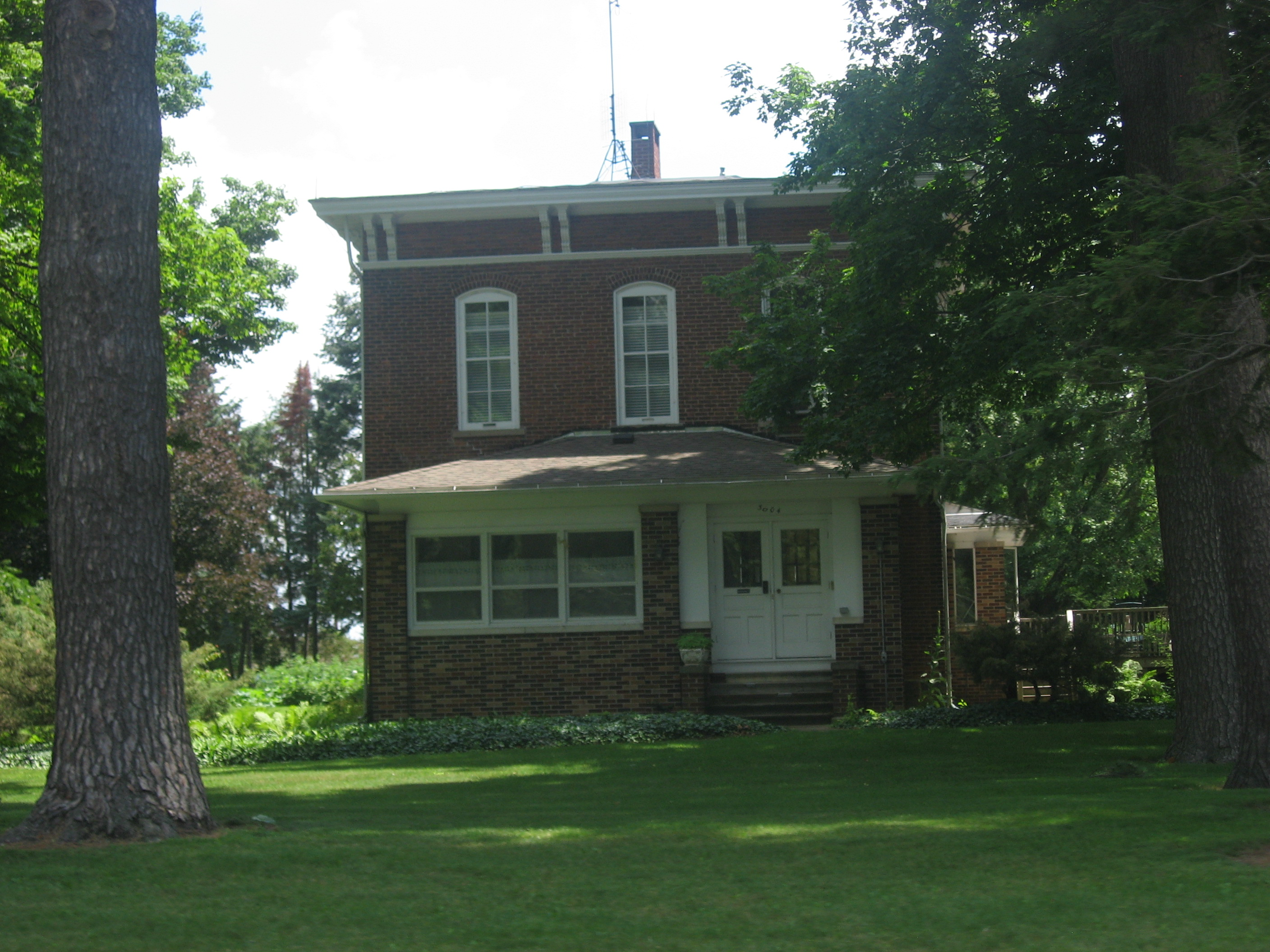 Streetside view of the William N. Violett House, located at 3004 S. Main Street (State Road 15) in Goshen, Indiana, United States. Built in 1854, it is listed on the National Register of Historic Places.